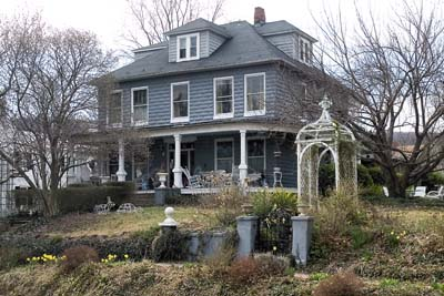 Kaplon-Stowell House (c. 1908), Harpers Ferry, WV (D. Burgess, March 30, 2008).